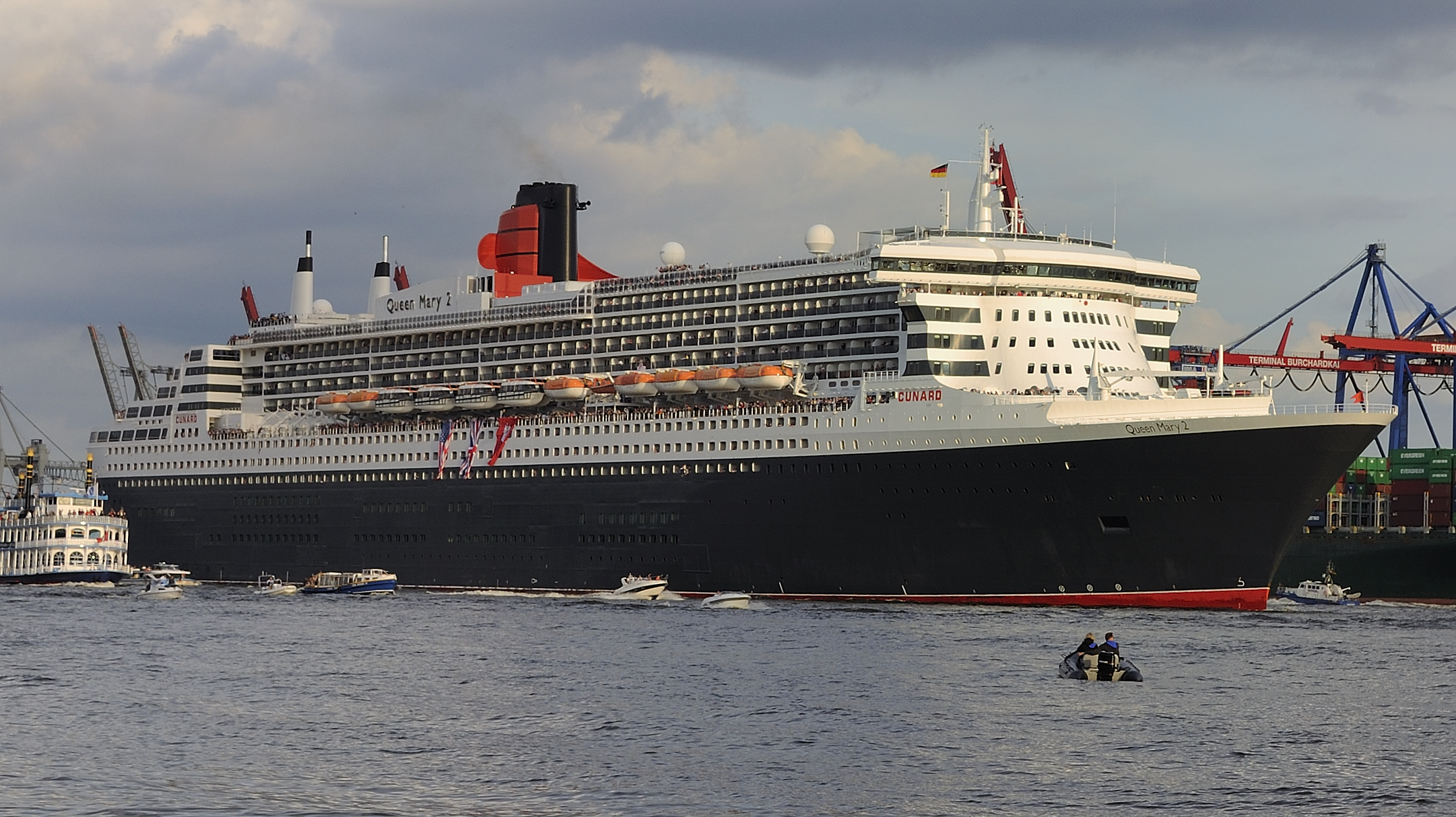 Picture taken in Hamburg. RMS Queen Mary 2.